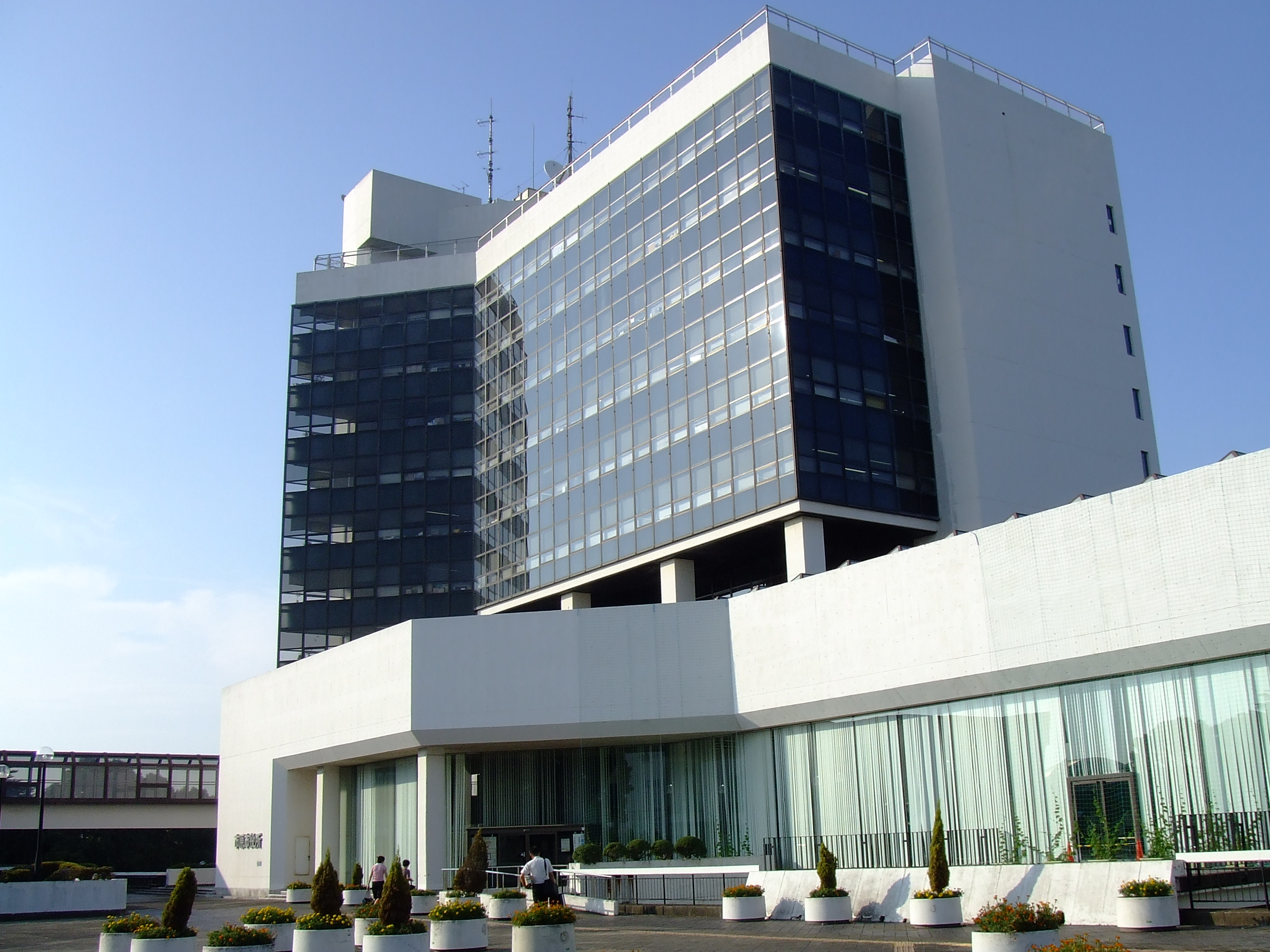 Ichihara City hall